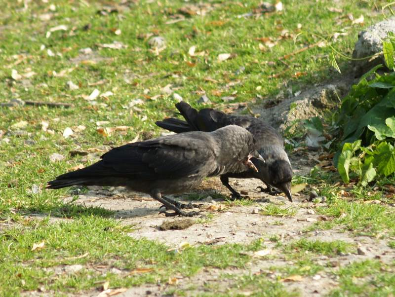 An adult Jackdaw (background) and a juvenile (foreground) in Gentofte, Denmark.